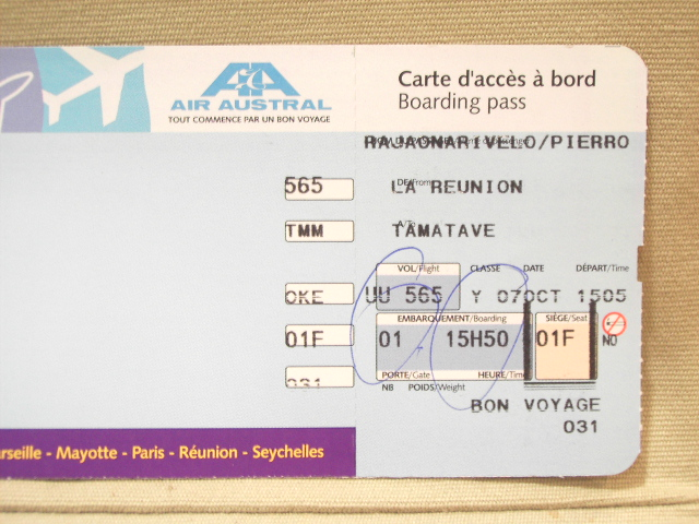 Billet de Pierrot rajaonarivelo